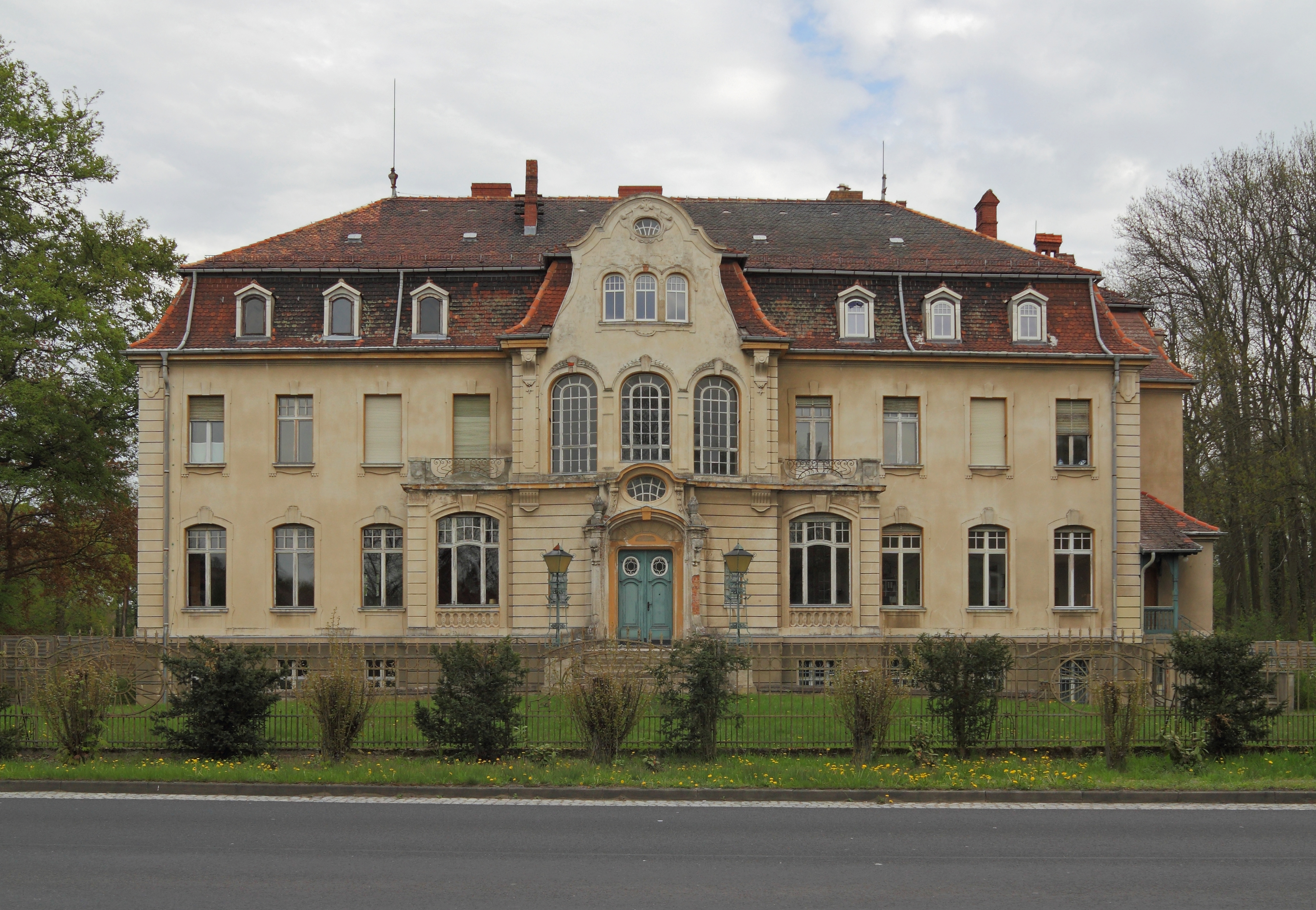 Kaltenhausen Manor in Jüterbog, Brandenburg, Germany